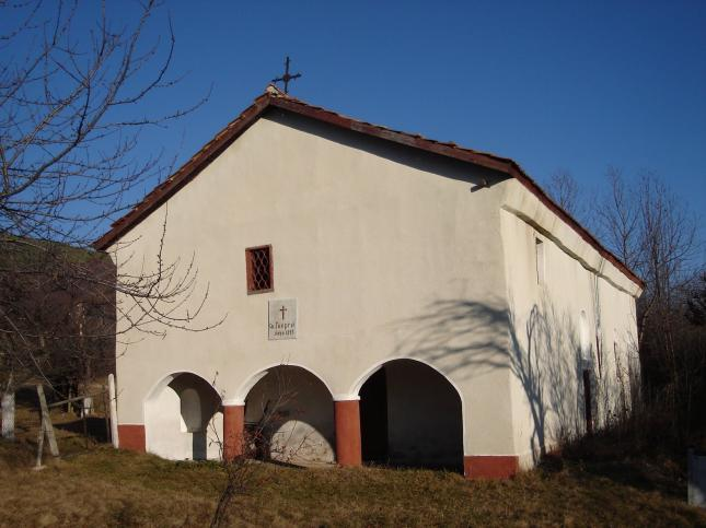 Church "Saint George" in village Zheravino on the border of Bulgaria and Serbia